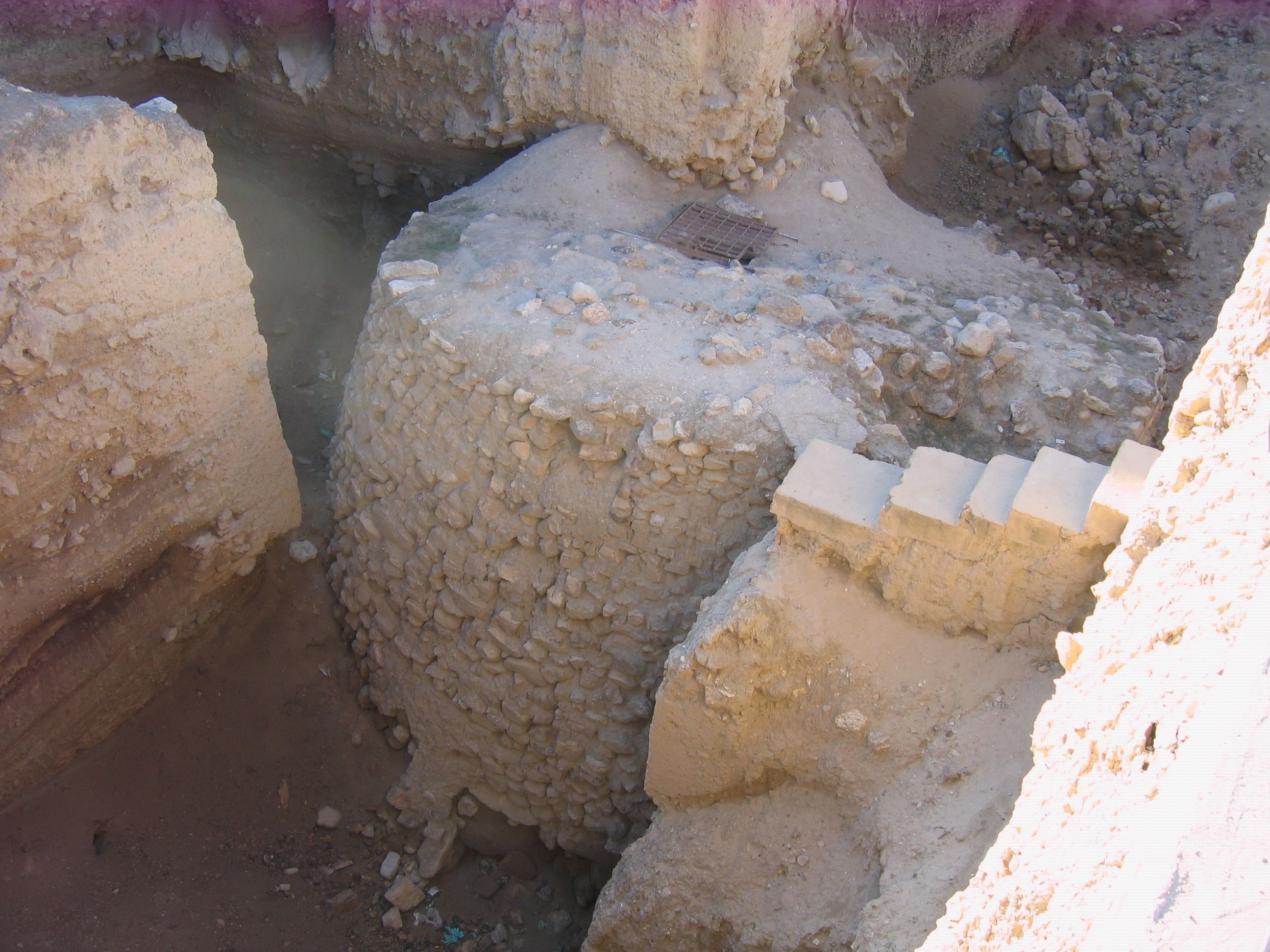 Tower of Jericho, Tell es-Sultan archaeological site, ca. 7000 BC